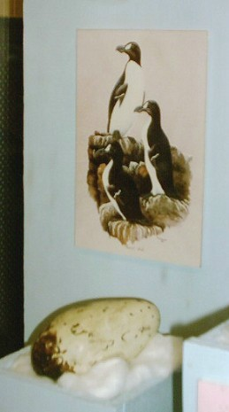 Author: Sarah Hartwell Great Auk egg at Ipswich Museum.